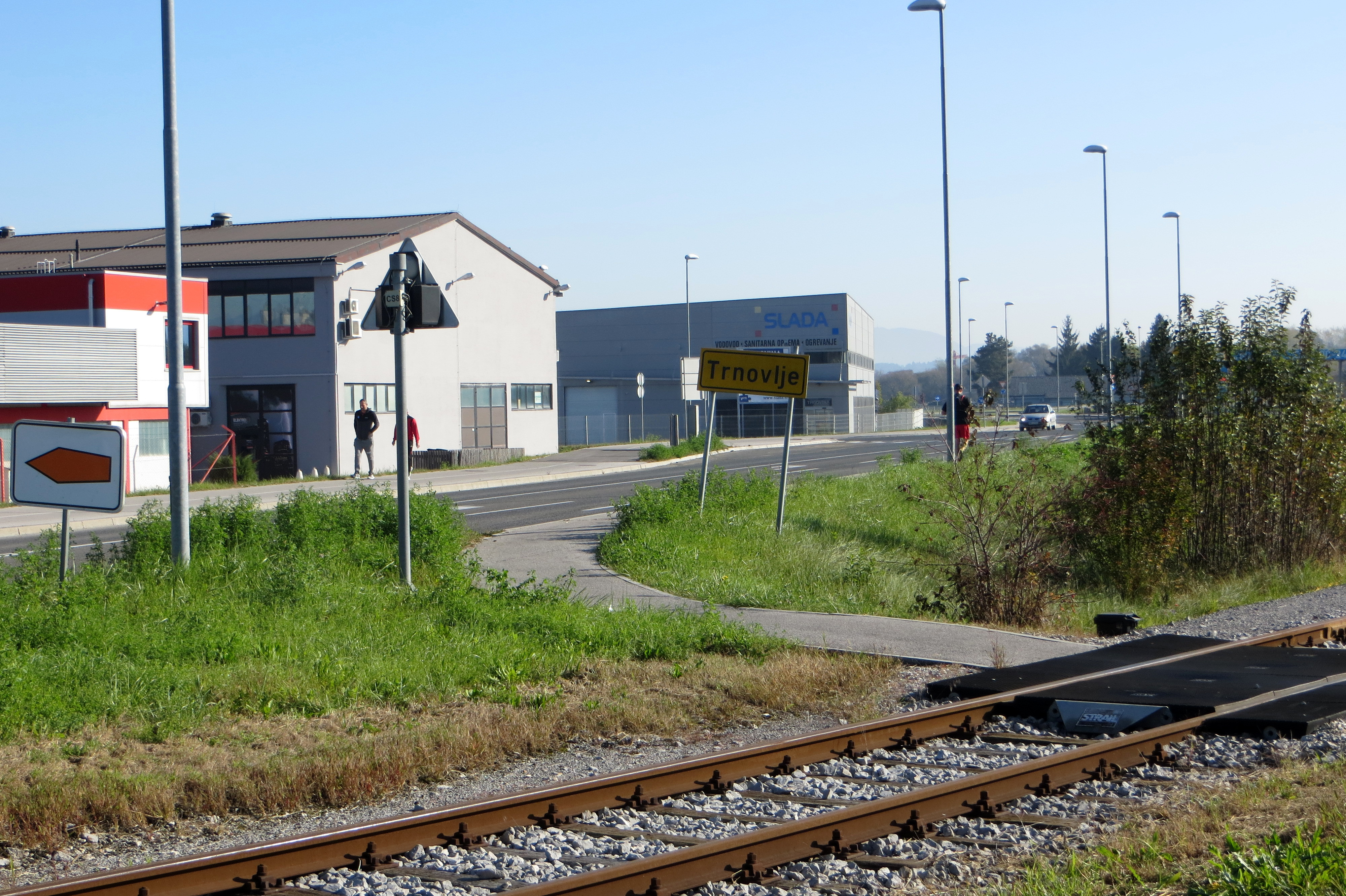 Trnovlje pri Celju, Municipality of Celje, Slovenia